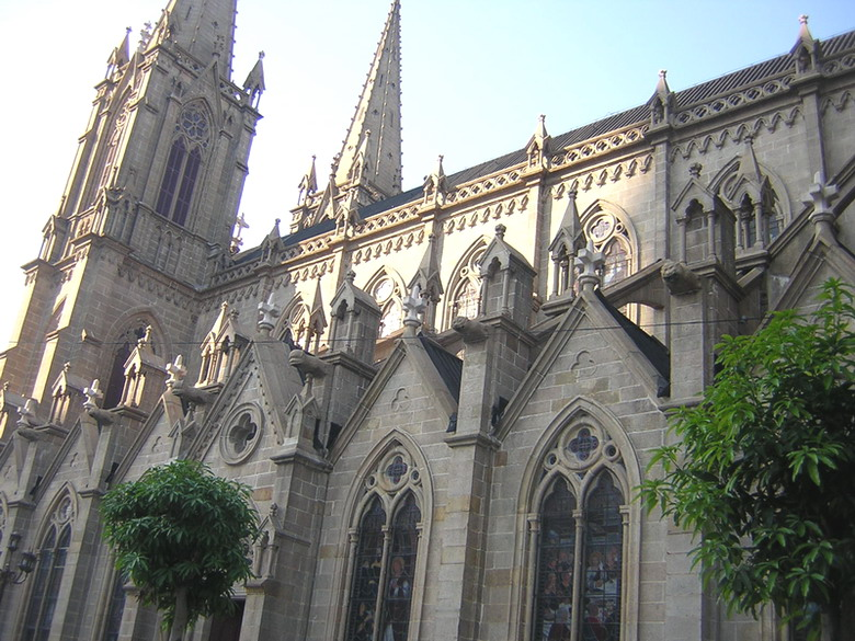 Iglesia del Sagrado Corazón en Guangzhou. Church of the Sacred Heart in Guangzhou.